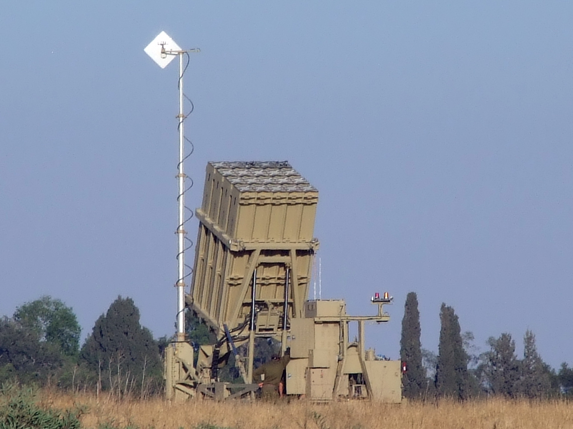 Iron Dome CRAM launcher near the town of Sderot.